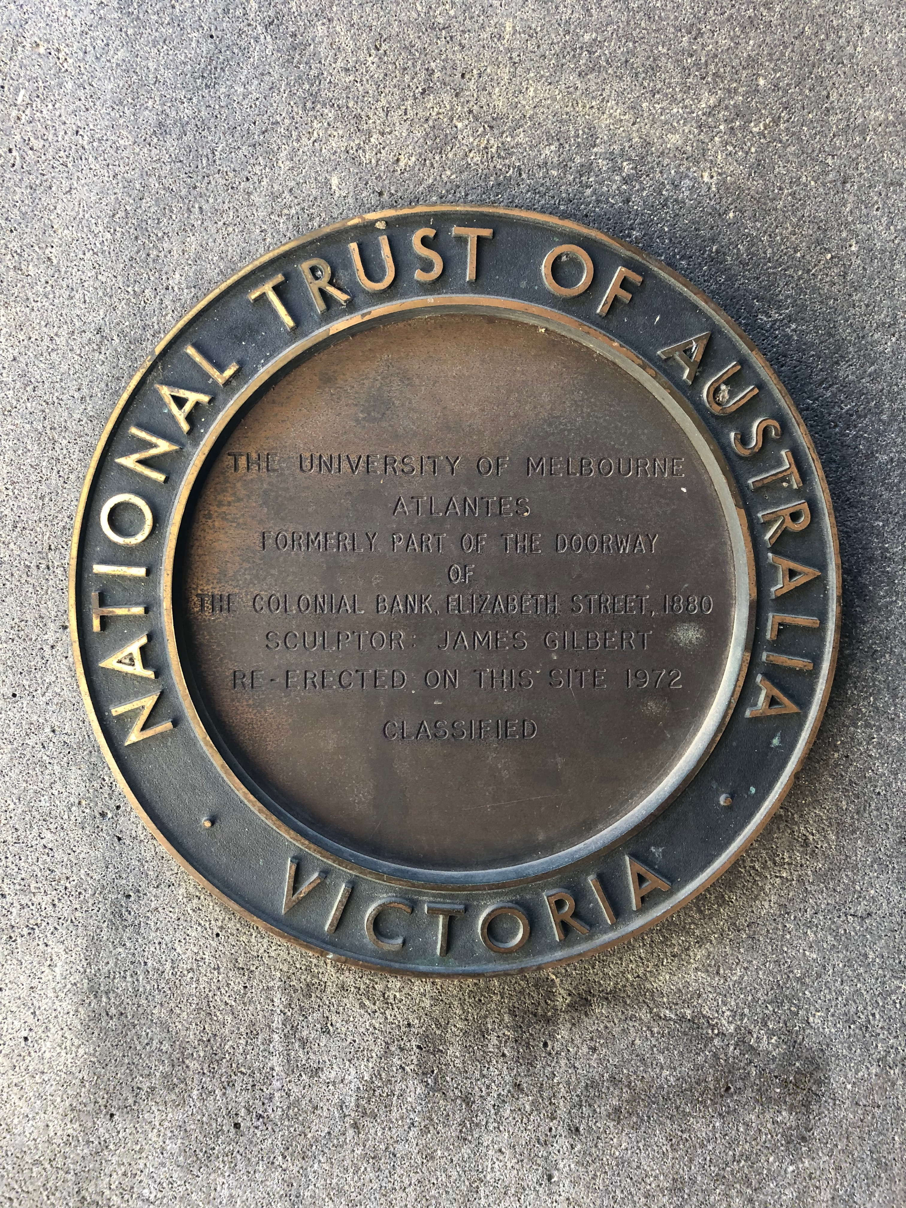 Plaque by the National Trust of Australia (Victoria) on the Atlantes entrance to the South Lawn car park on the University of Melbourne Parkville campus.